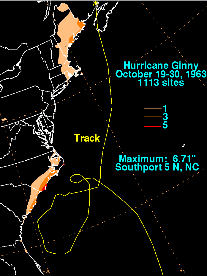 Storm total rainfall map of Hurricane Ginny during October 1963.